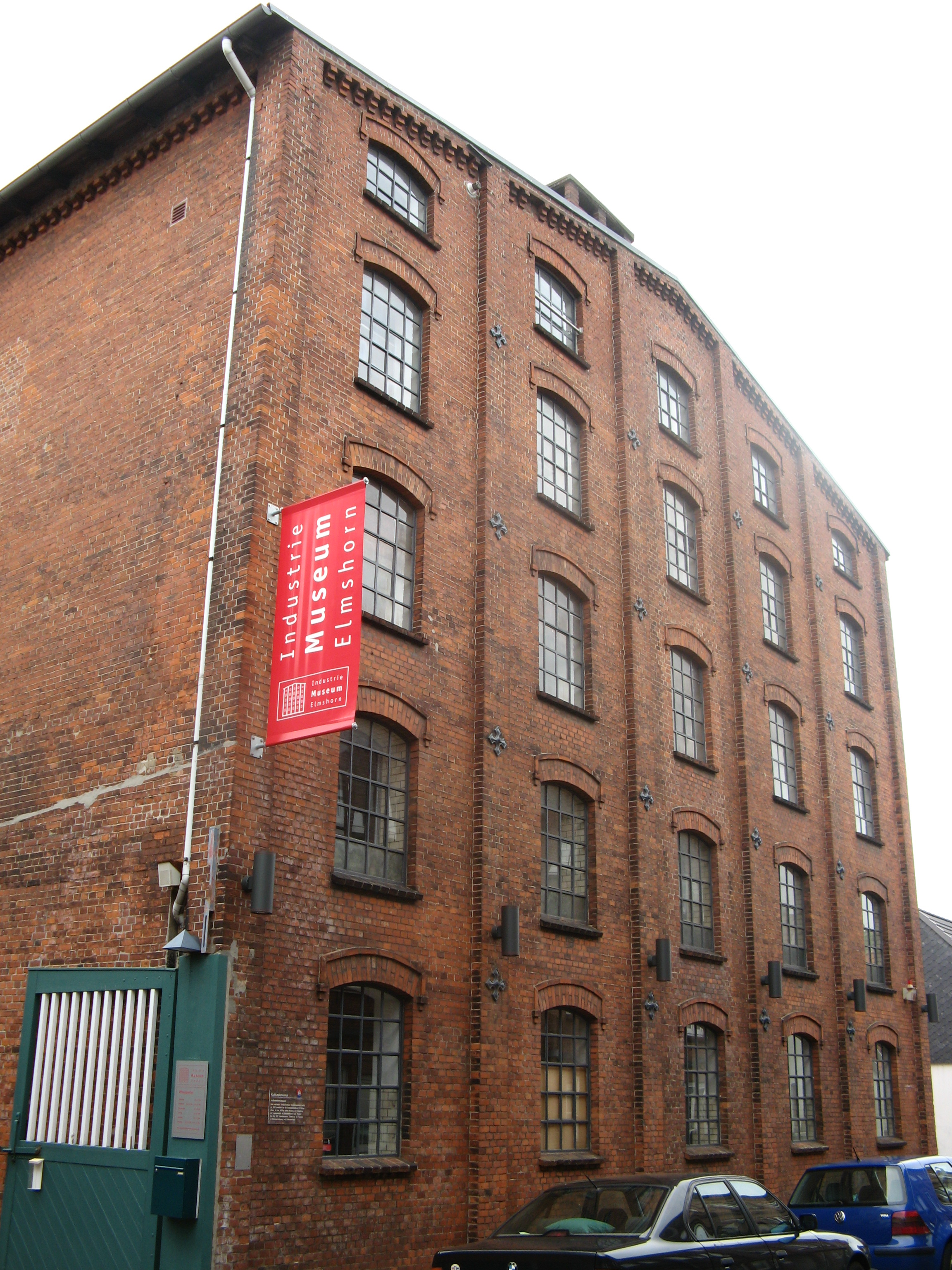 Industriemuseum (Museum of industry), Catharinenstraße 1, Elmshorn, Germany